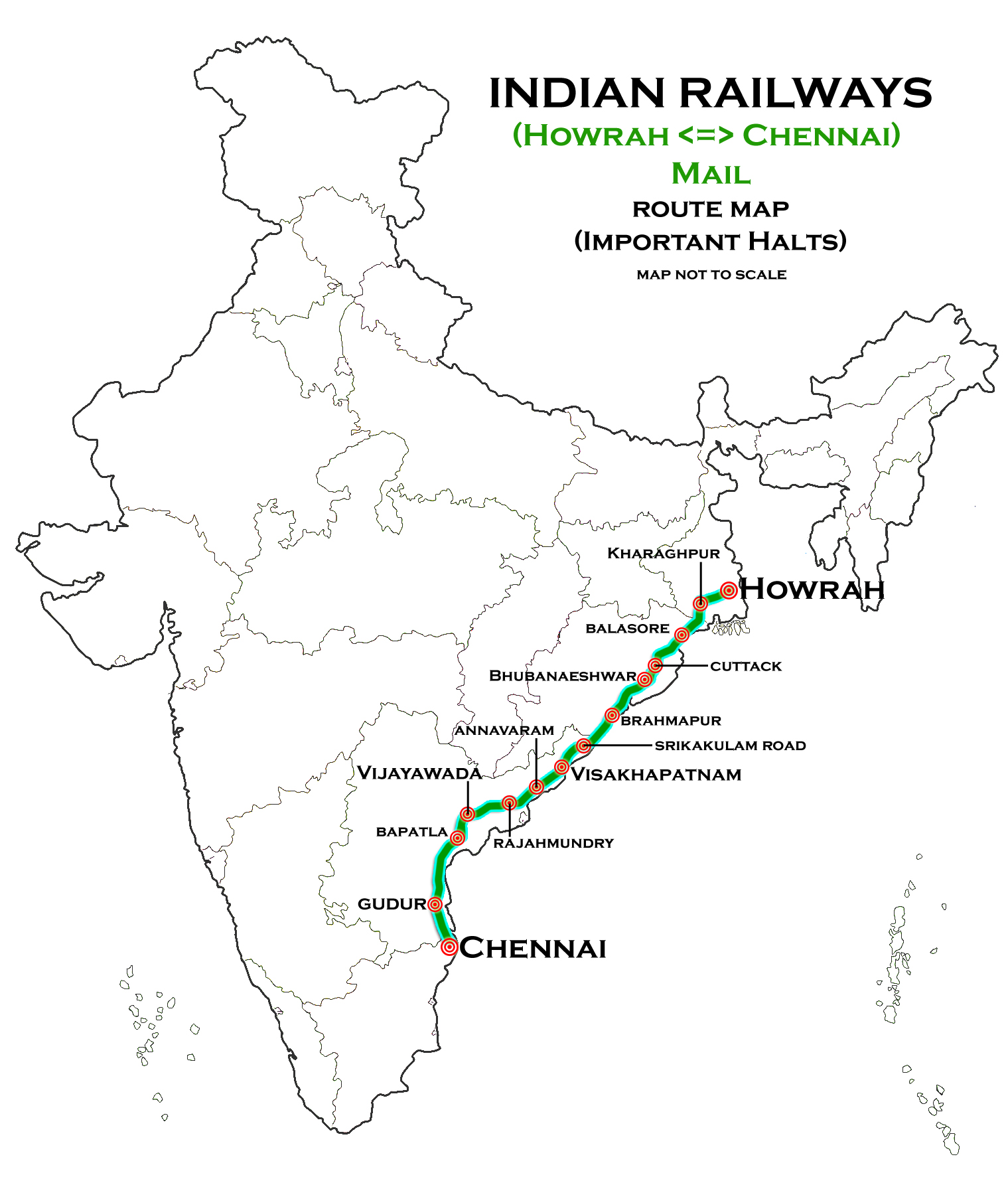 (Howrah - Chennai) Mail Express Route map